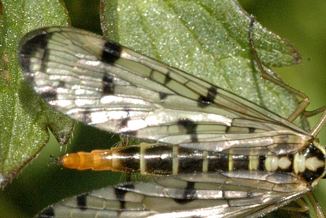 Picture taken in Commanster, Belgian High Ardennes . Species: Panorpa germanica